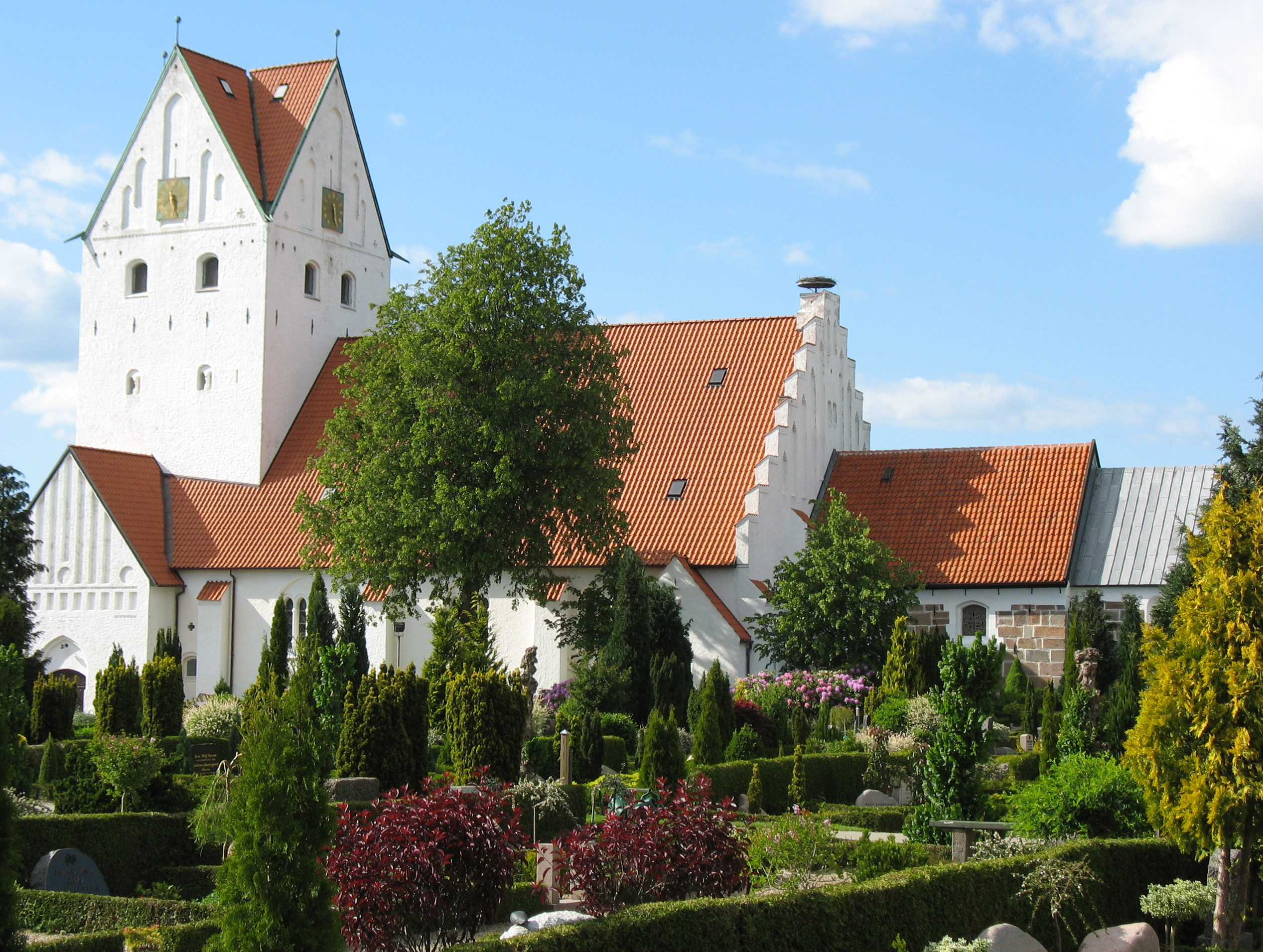 Grindsted Church, Municipality of Billund, Region Syddanmark, Denmark.